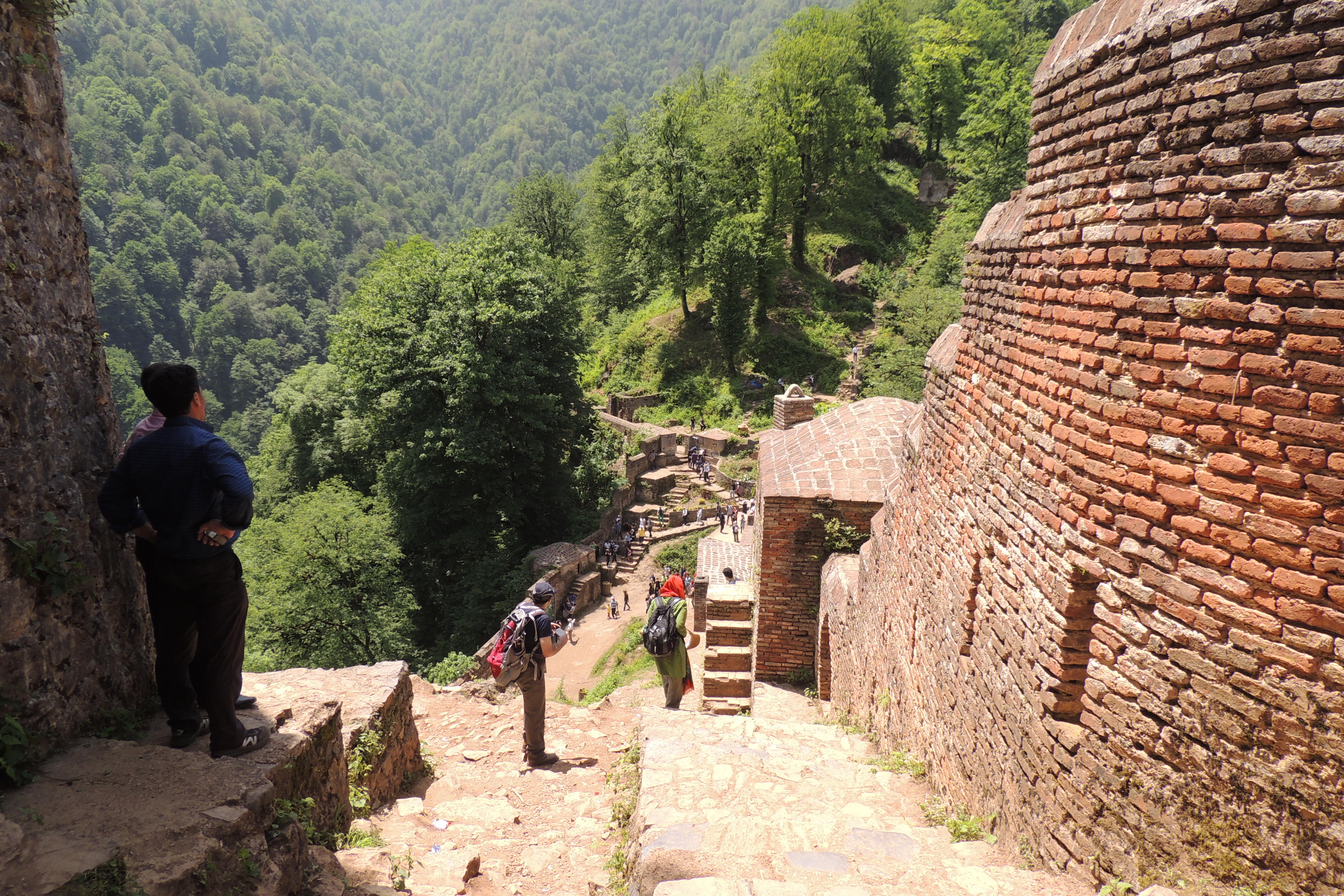 Rud-khan castle (also Rood-khan castle), is a brick and stone medieval castle in Iran.